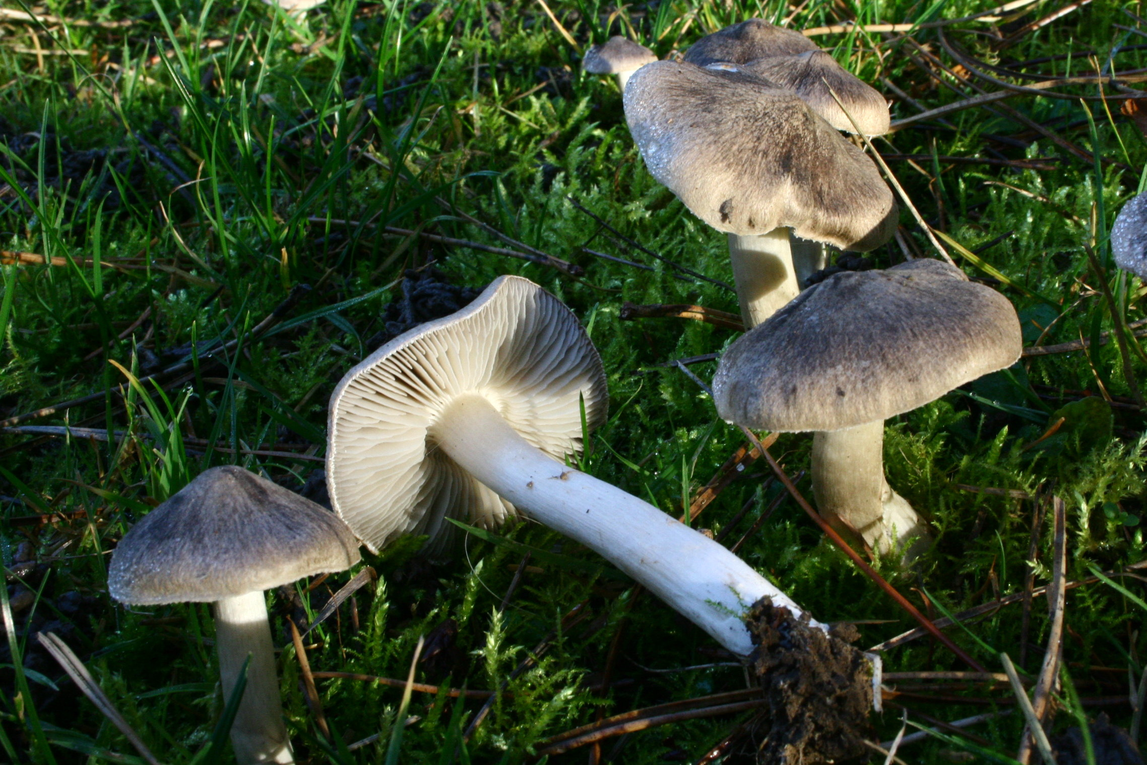 Tricholoma terreum in a park near Massy, France.